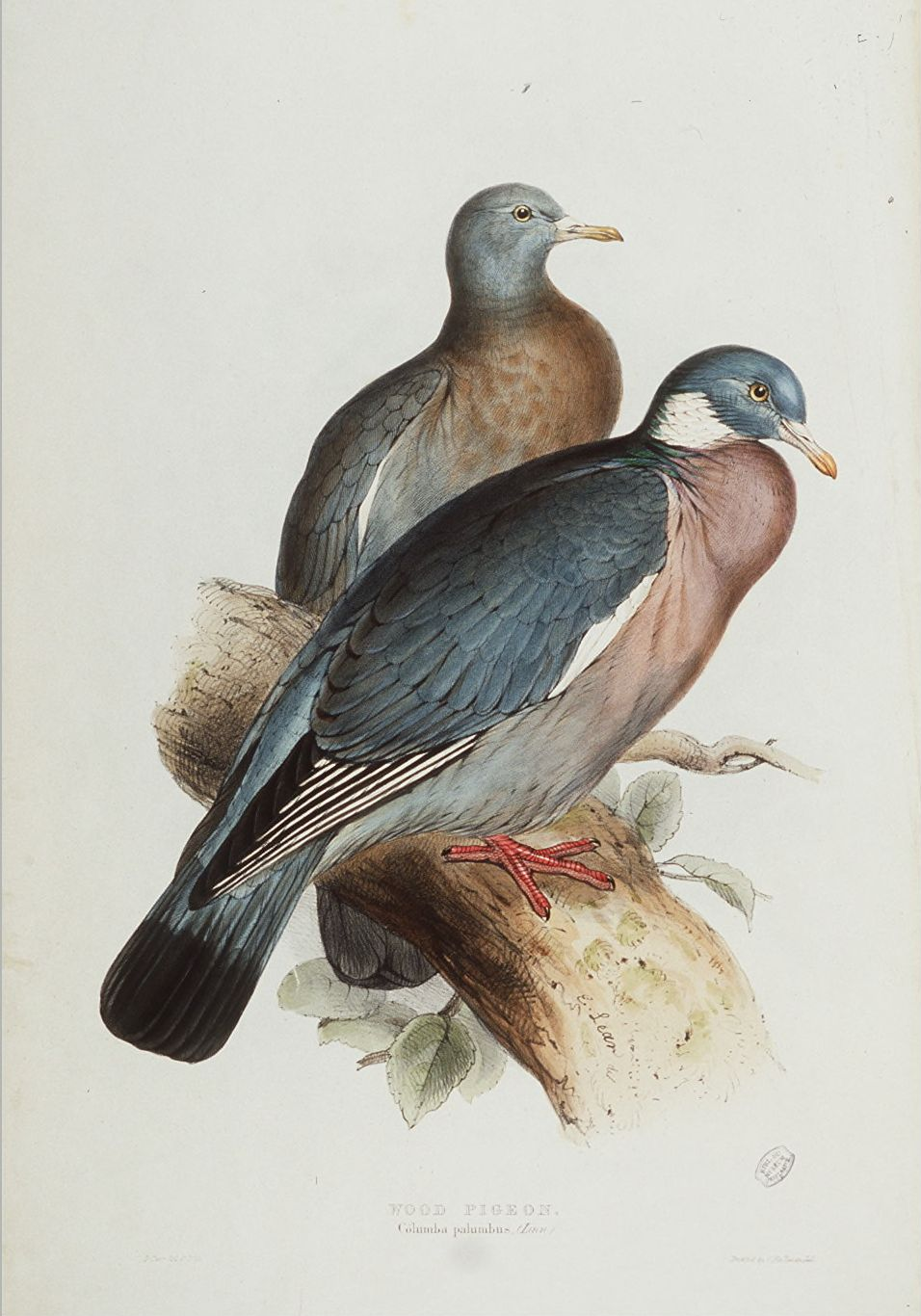 Illustration of Columba palumbus Linn., (Wood Pigeon).